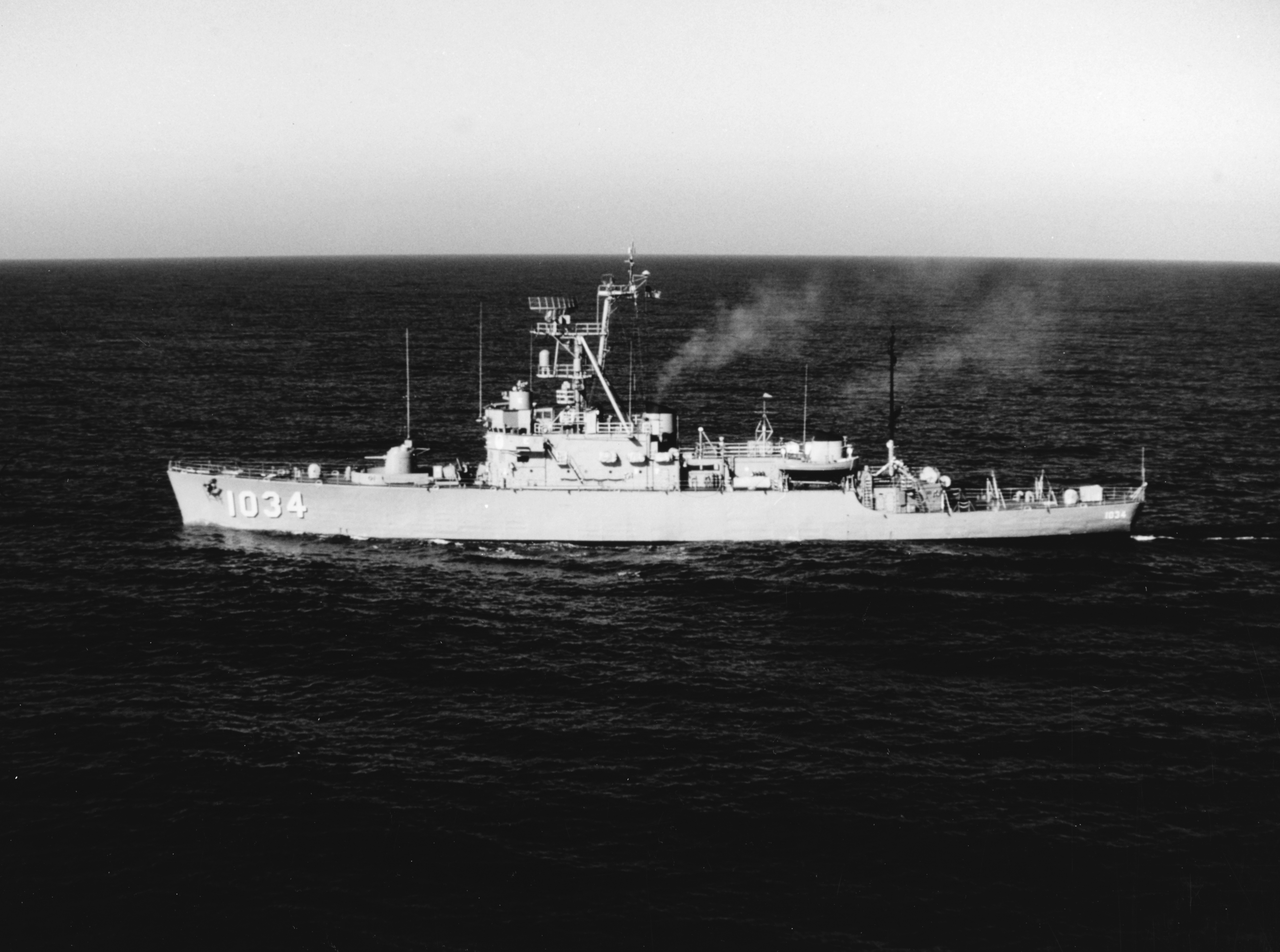 The U.S. Navy ocean escort USS John R. Perry (DE-1034) underway in the Pacific Ocean, circa in 1971.